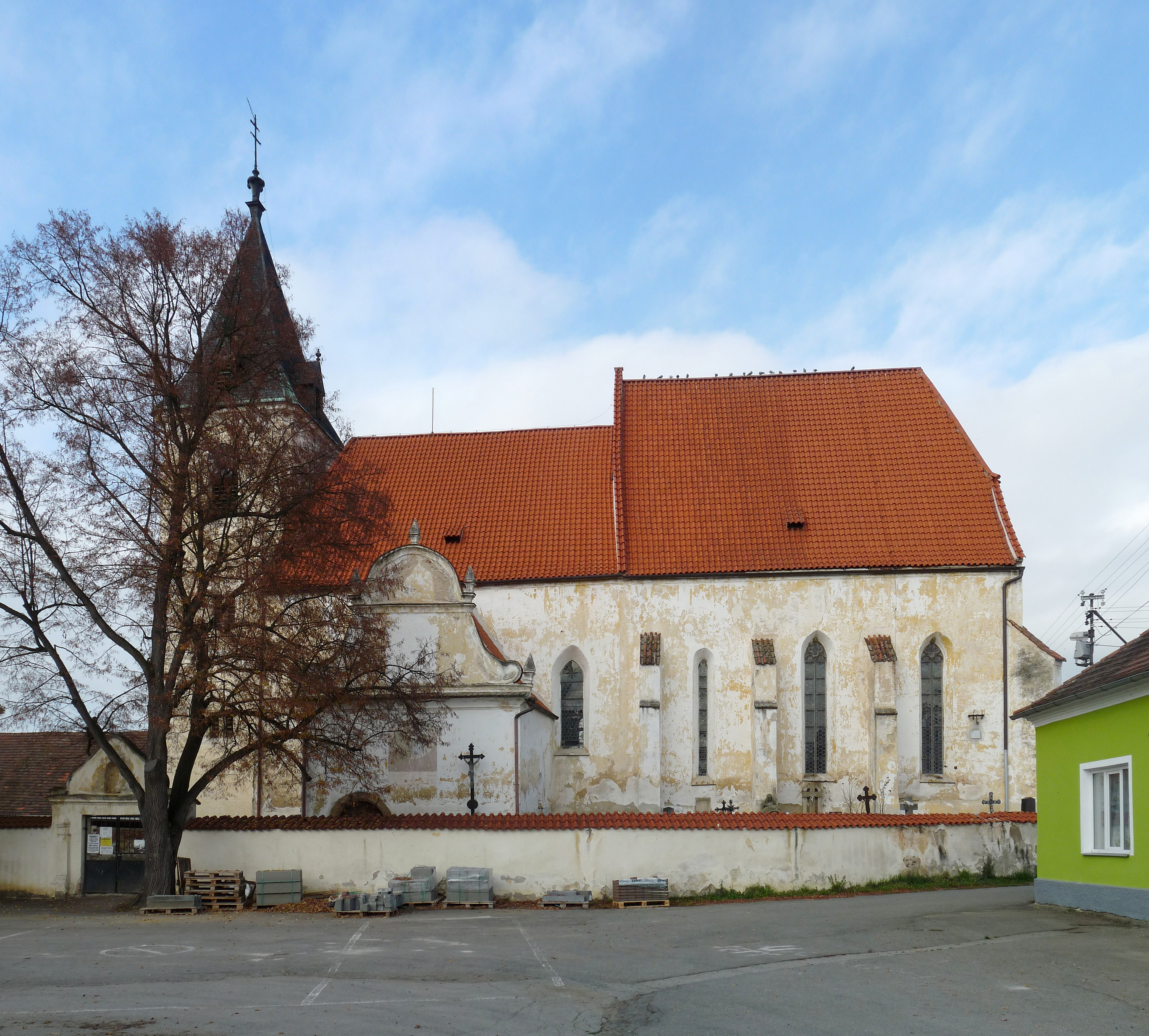 St Nicholas Church in the village of Němčice, Prachatice District, South Bohemian Region, Czech Republic.